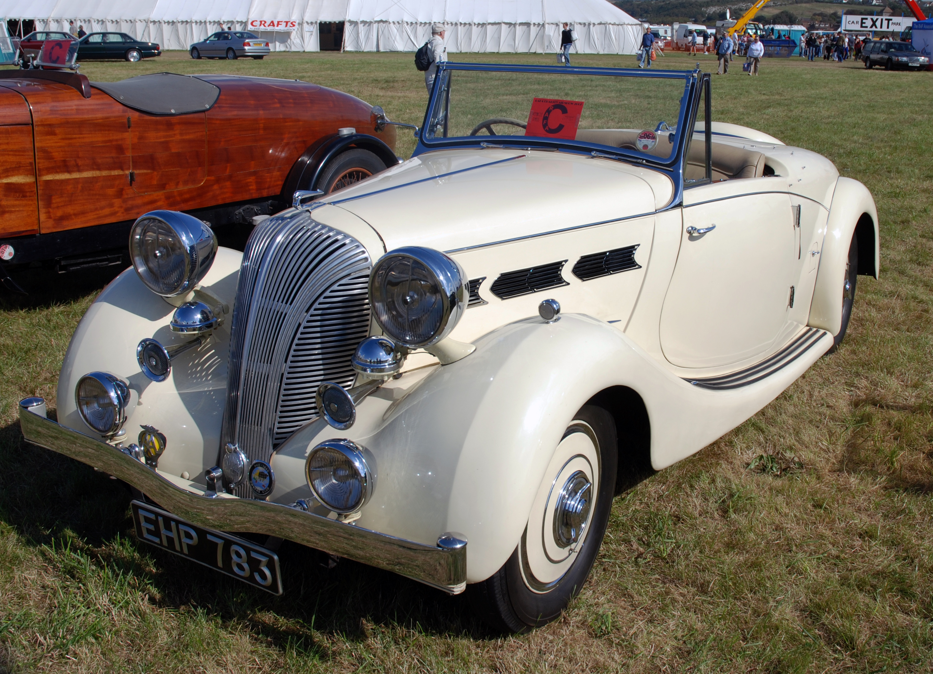 Triumph Dolomite Roadster Coupé(DVLA) first registered 20 May 1939, 1701ccShoreham RAFA day 16/9/07